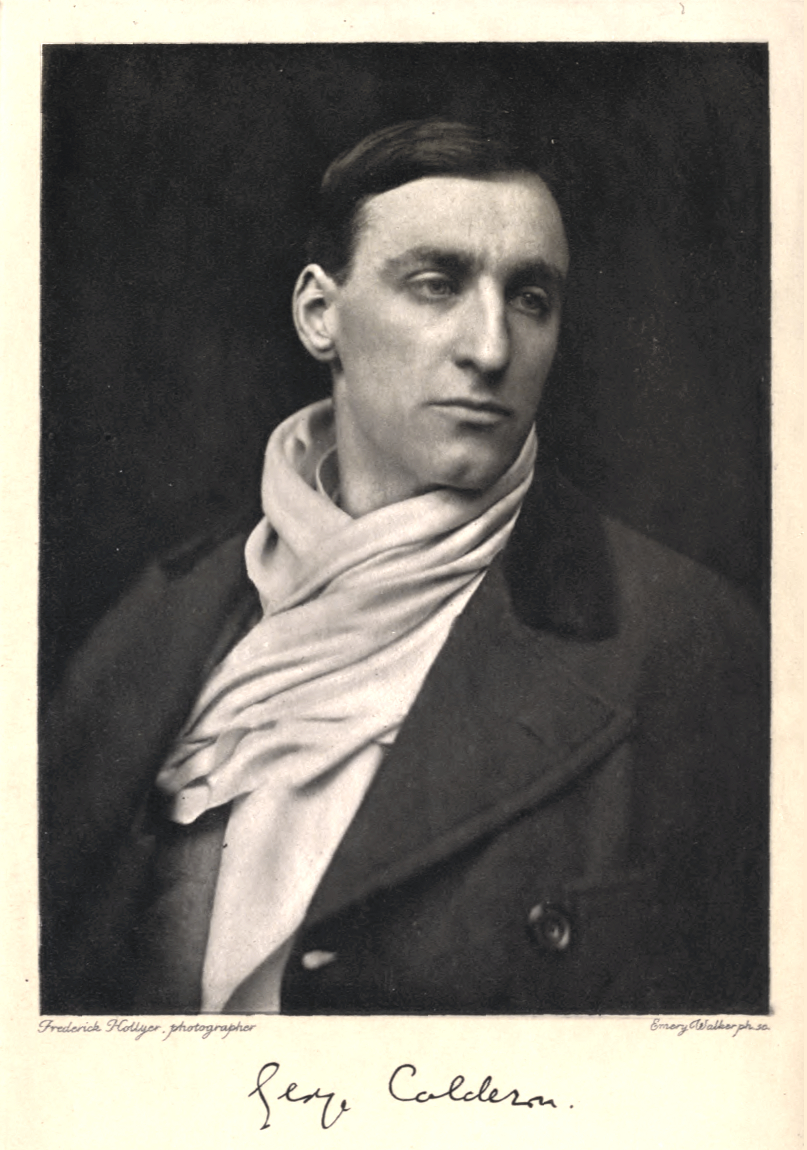 George Calderon (1868—1916) — English playwright.